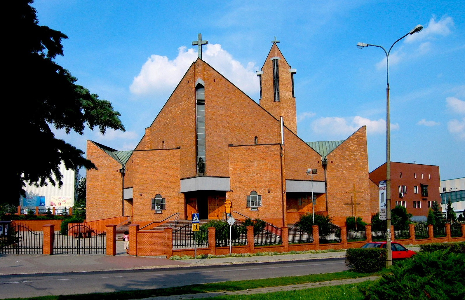 The Church of Our Lady of the Rosary in Chrzanów